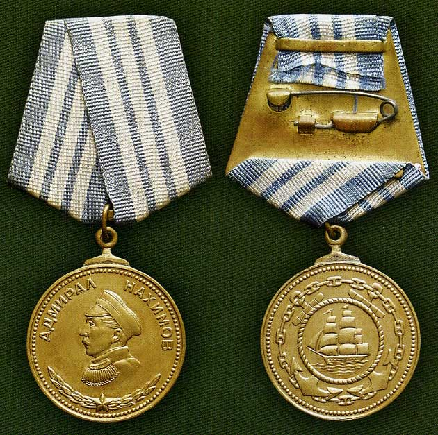 Nakhimov Medal.